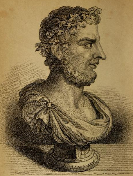 Juvenal's fictitious portrait, 19th century (S. H. Gimber) In: Juvenal. Translated by Charles Badham. New York, 1837. Published by Harper & Brothers